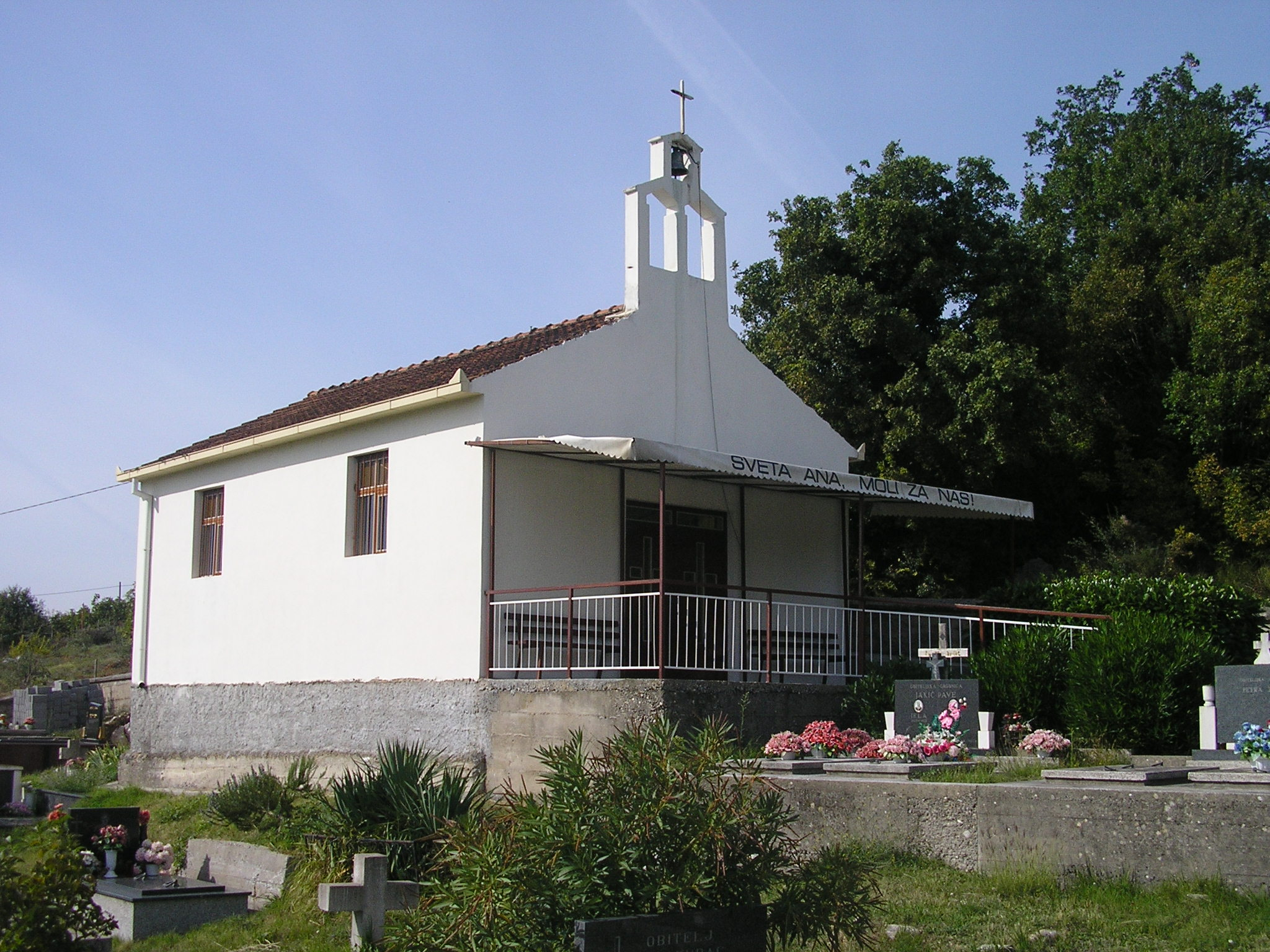 Saint Anne Church, Crnići, BiH